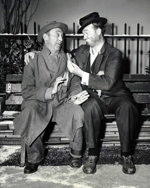 Photo of Red Skelton as Freddie the Freeloader and Allen Jenkins as Freddie's pal, Muggsie for an enactment of the O. Henry story The Cop and the Anthem. Skelton first enacted this story in 1954; this is his 1958 enactment of it on The Red Skelton Show. The two plan how to get arrested so they will have a warm place and a meal for Christmas.